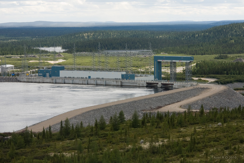 The Laforge-2 Hydroelectric Power Station, as seen from upstream.